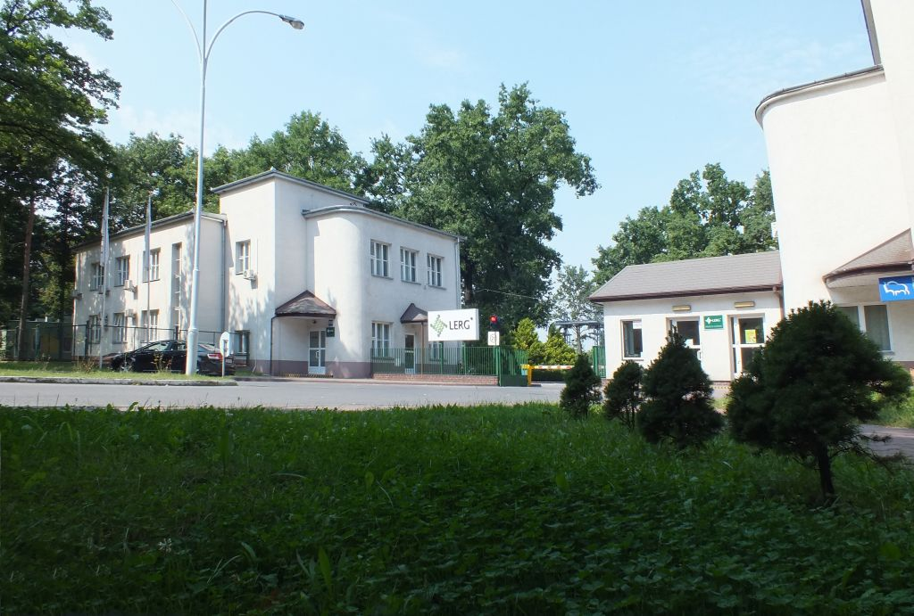 The main entrance of LERG ( located in Pustków, Poland)